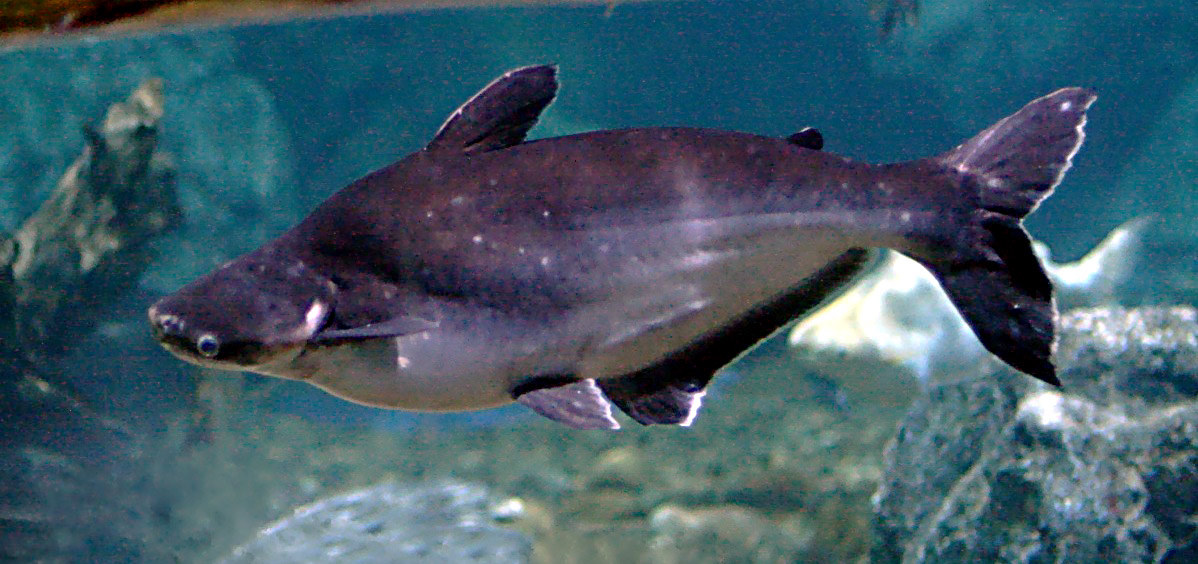 Incandescent shark catfish Pangasius hypophthalmus